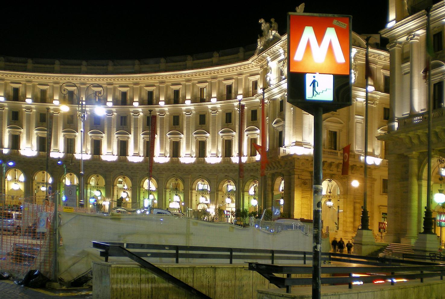 Piazza della Repubblica in Rome, Italy.